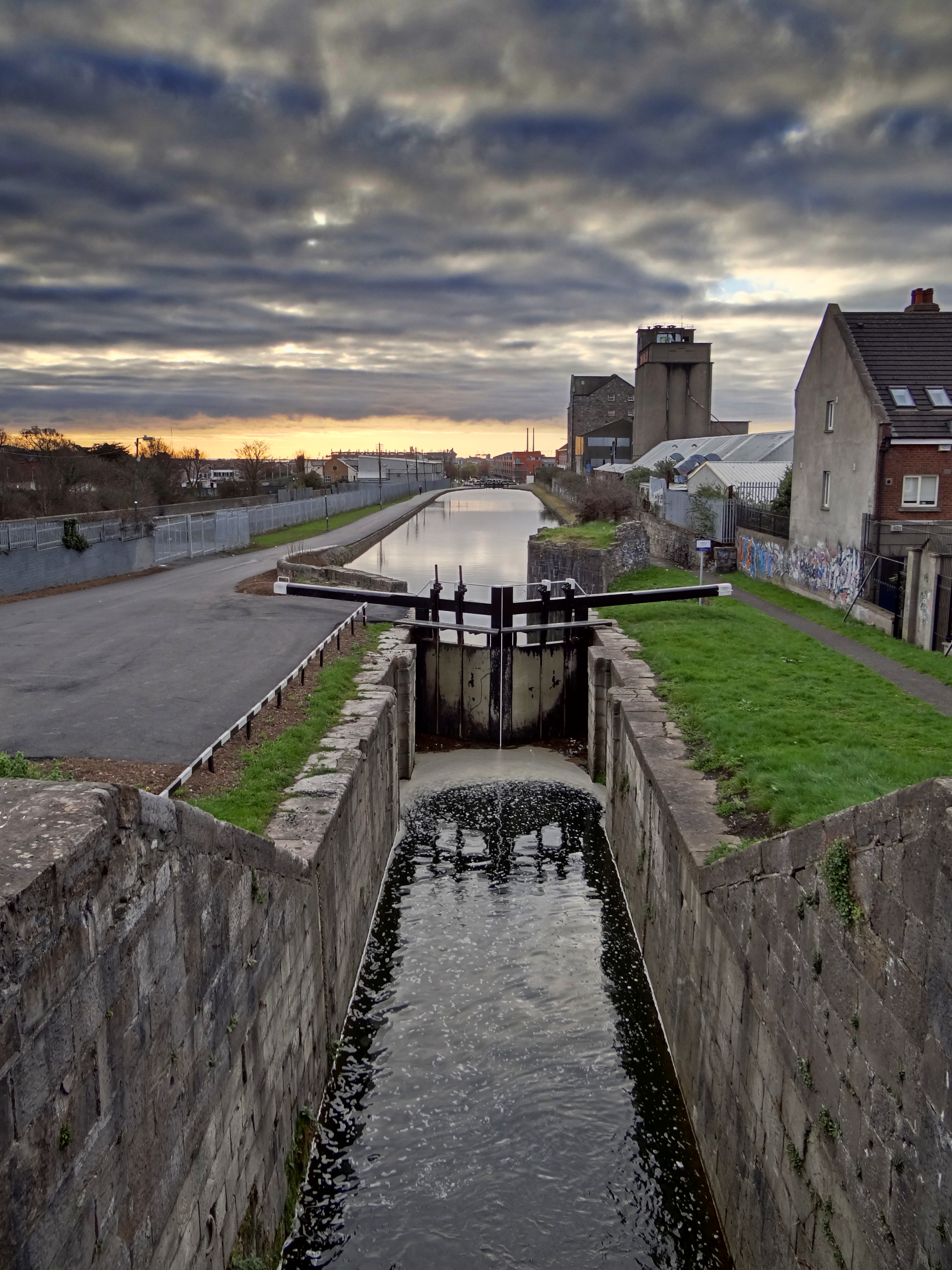 A lock on The Royal Canal as it passes The Old Mill in the outskirts of the Dublin city centre during sunrise in March.